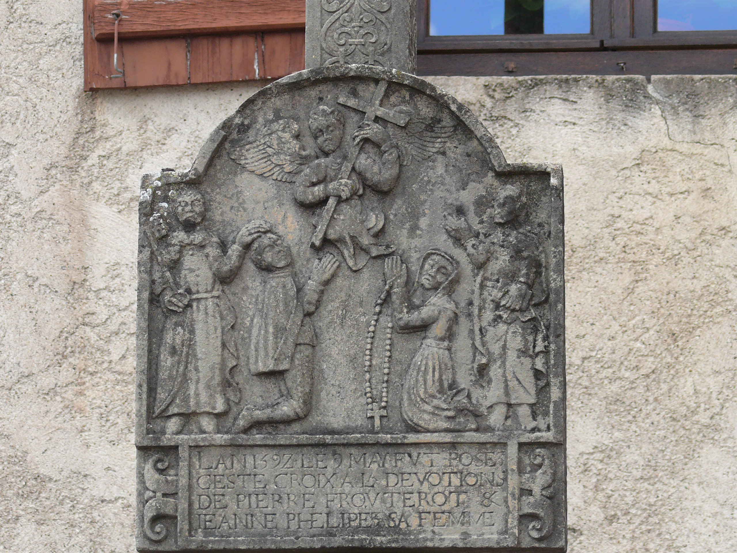 Cross of Montigny-lès-Vesoul (Haute-Saône, France) - 1592